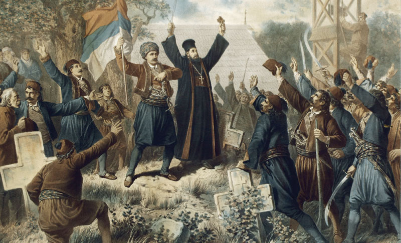 "The Takovo Uprising". Colour lithograph by Vinzenz Katzler, published by I. Gerhardt, Vienna, 1882, Historical Museum of Serbia, Belgrade. The Takovo Uprising (1815) was used to celebrate Serbian independence, became a symbol of regeneration.